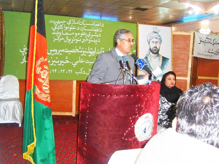 Massoud Nawabi delivering a speech at the Mirwais Neka's Conference in Kabul, Afghanistan.